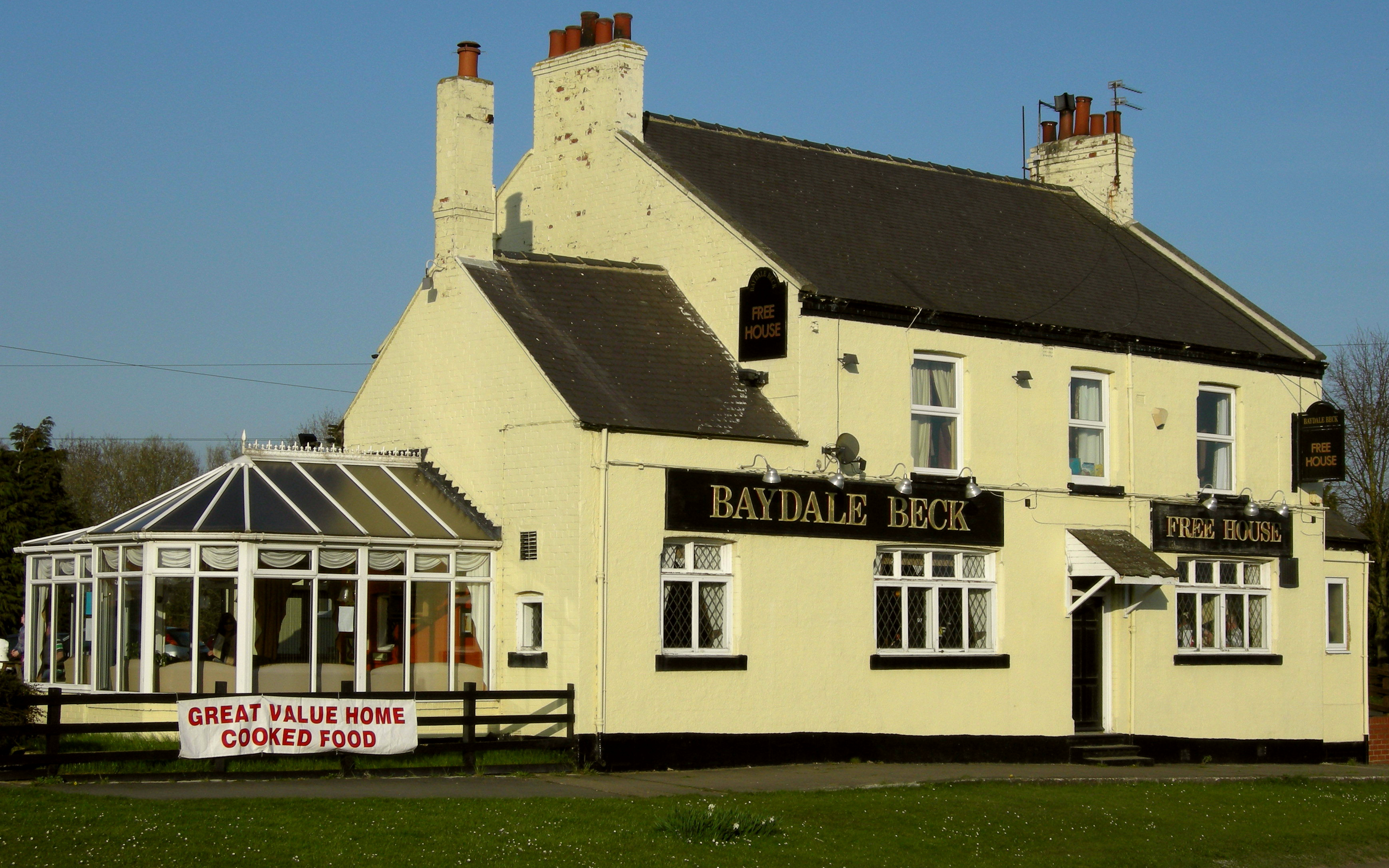 Baydale Beck pub, at the east end of the street settlement of Merrybent, County Durham, England. It is located on the A67, east of the A1 road bridge.